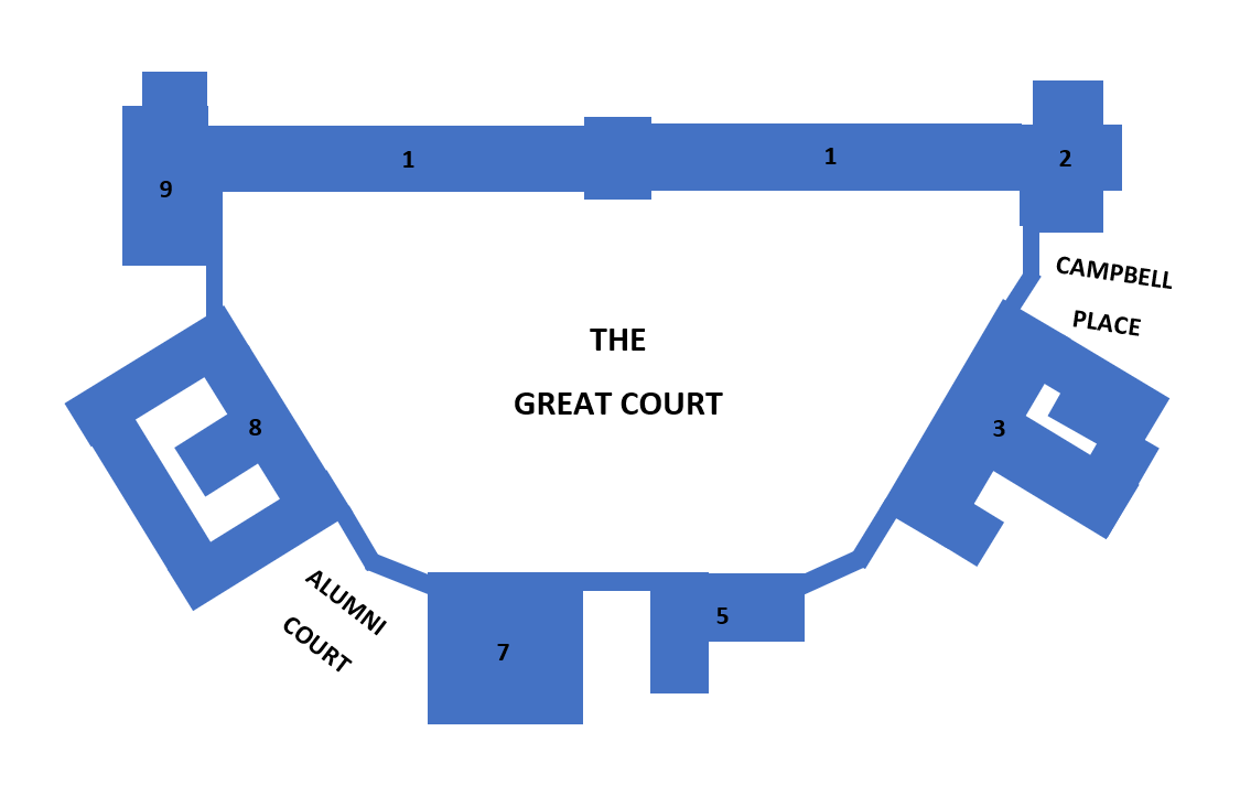 The layout of the Great Court, including the building numbers, on the St Lucia campus of the University of Queensland.